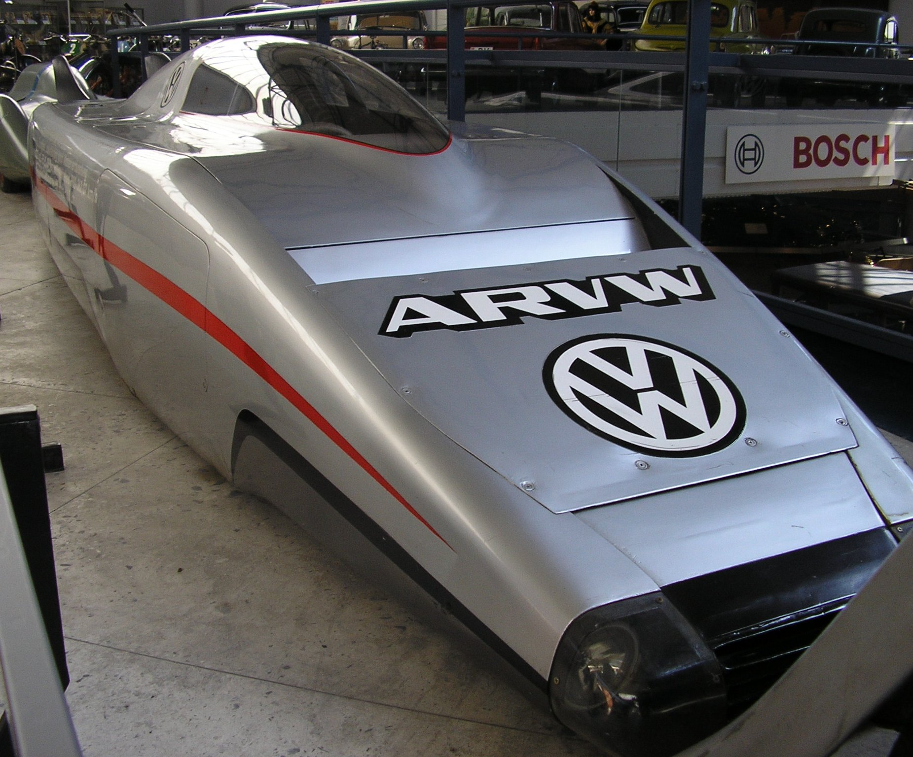 An 1980 test and research vehicle by Volkswagen. It was built for aerodynamic research and investigation of the connection between body shape and fuel consumtion at high speeds. It also broke the record for the fastest diesel powered car. It used an inproved 175 hp six cylinder diesel engine with 2386 cc capacity and a standard gearbox. The top speed recorded was 362 km/h.